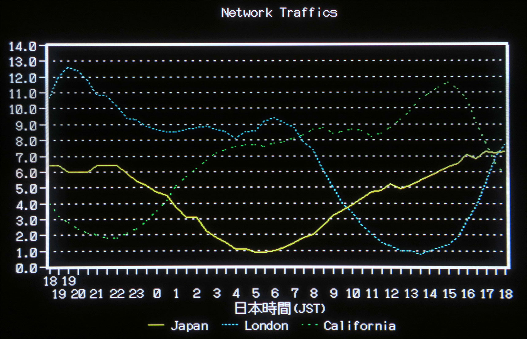 Screenshot of a chart drawn by Lotus 1-2-3 R2.2J for NEC PC-9800 series.